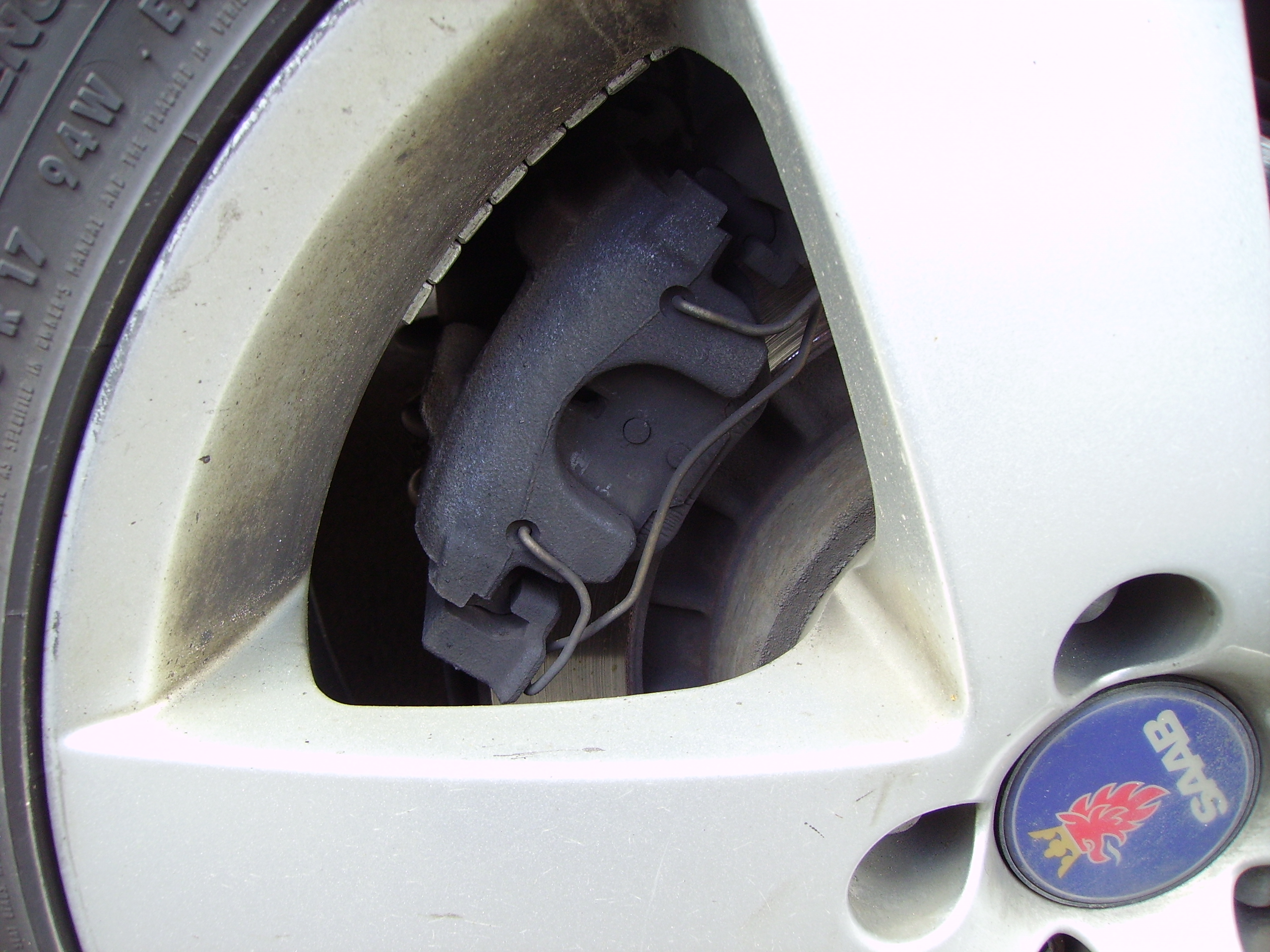 Rear disc brake unit Saab 9-5 Aero (right back wheel)